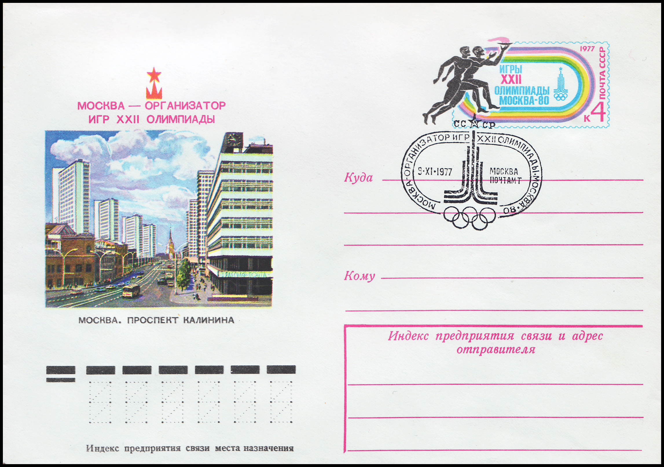 USSR, 1977. Envelope with commemorative stamp. "Moscow - organizer of the XXII Olympic Games" (Catalogue "Standard Collection" №36). Stamp: Ancient athletes on the background a stylized stadium. An official emblem of the Olympic Games. Illustration: Moscow, Kalinin Prospekt. Painters G. Komlev, I. Philippov. Special cancellation:: "Moscow - organizer of the XXII Olympic Games" 09.11.1977, Moscow, Central Post Office.